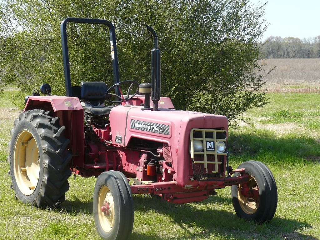 Koinonia's Manhindra Tractor. It's used to clear the orchards, give tours, and occasionally other light tractor duties.